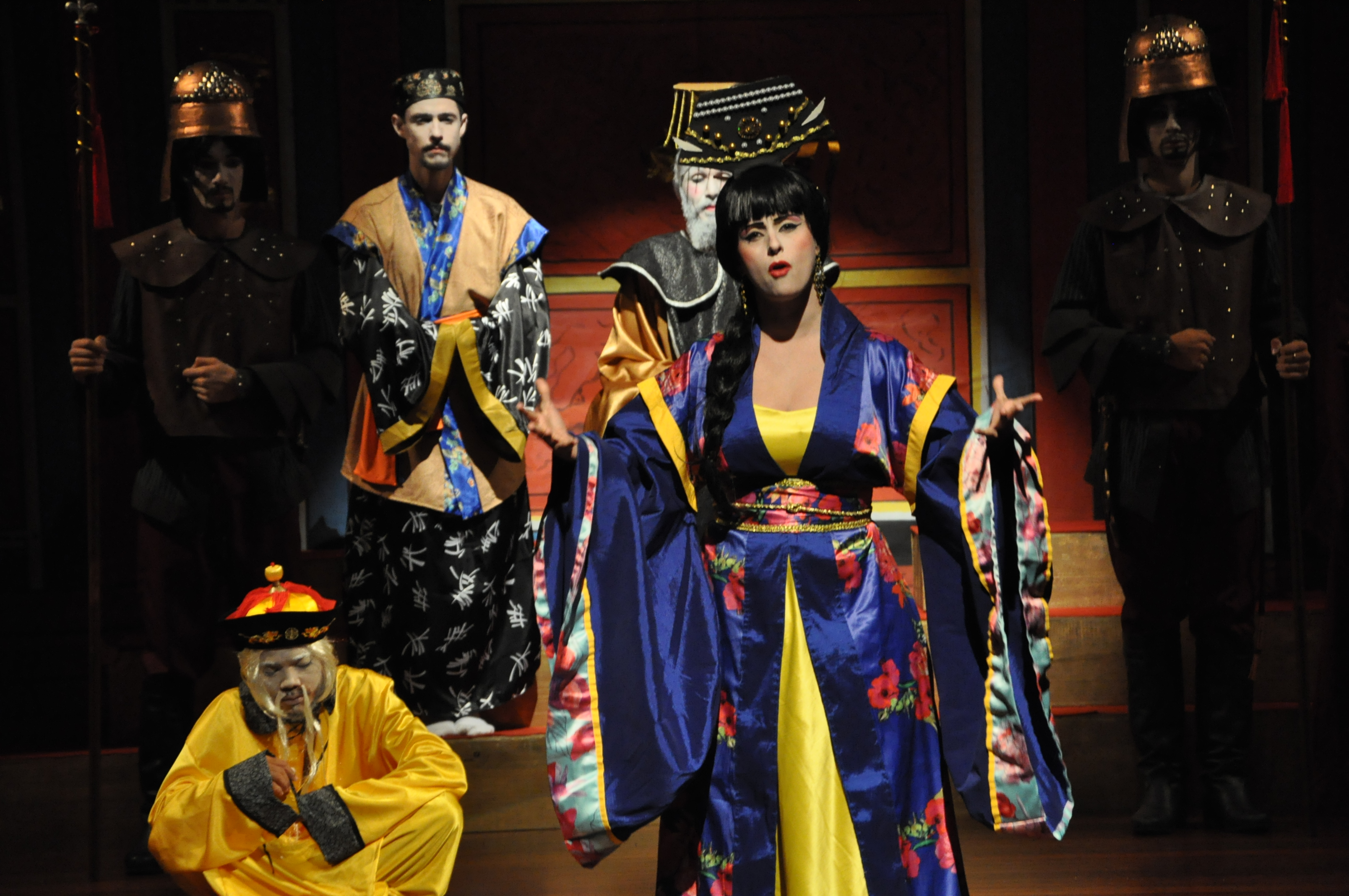 Theater play presented in 2016 in Governador Valadares and Ipatinga by Cia de Teatro Katarriso